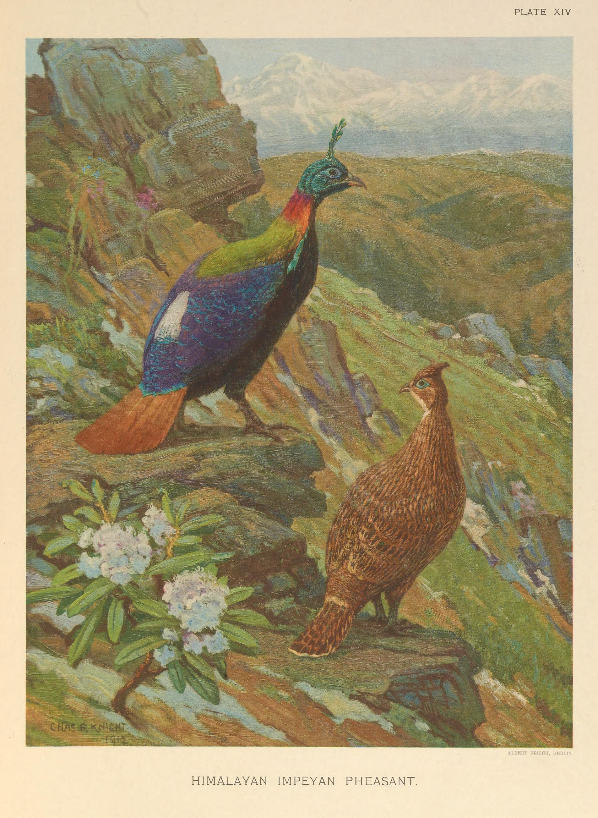 Himalayan Impeyan Pheasant (Lophophorus impejanus)